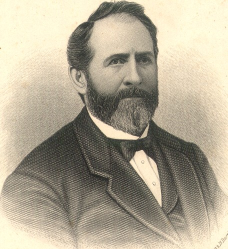 Image of Edwin Hurlbut in the late 1860's.